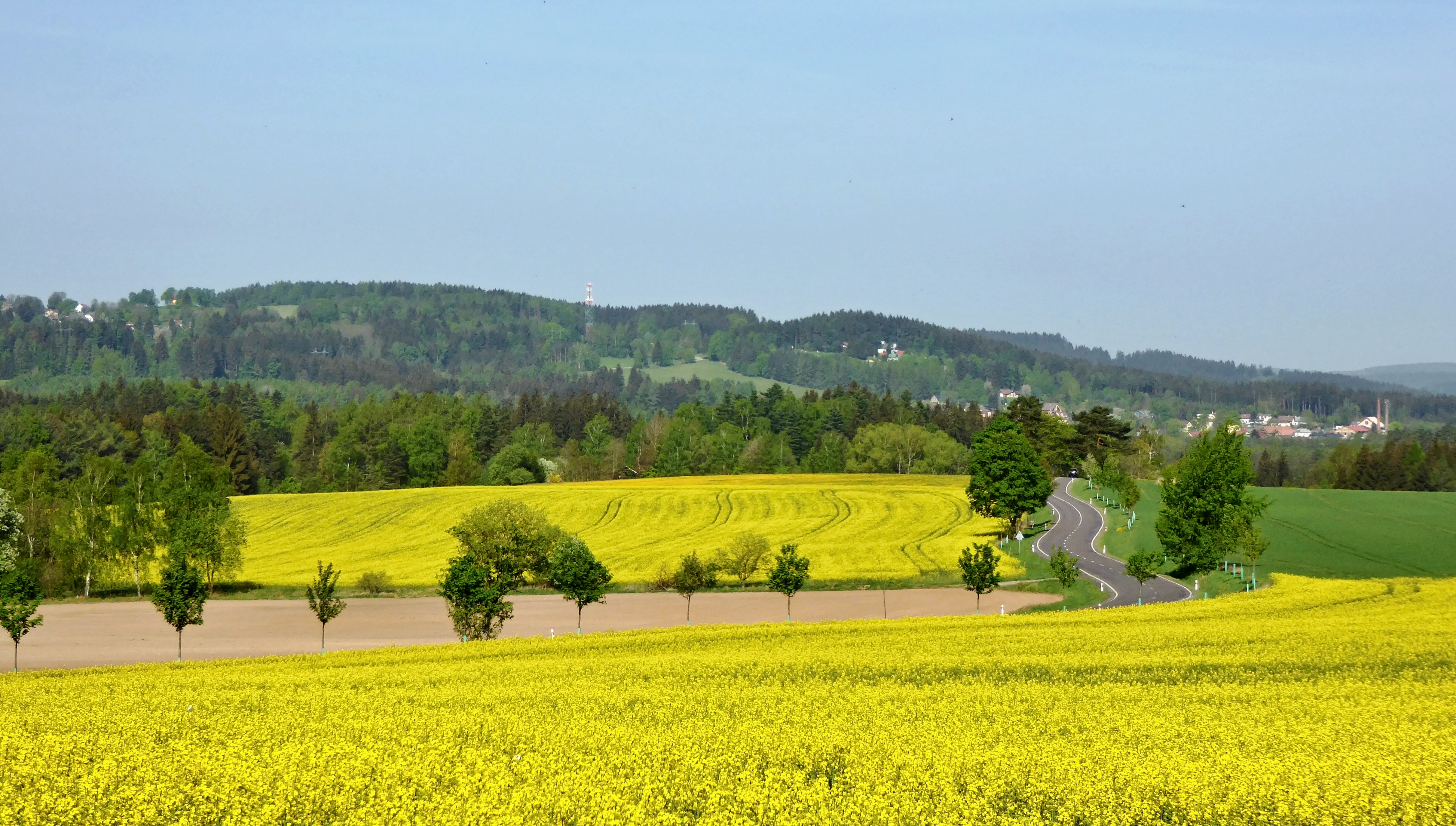 The ridge of the highlands with the Zubersky hill (in the photo in left) and the radiocommunication tower with a viewing platform over the small town of Trhová Kamenice (buildings in right). View from the road above the village "Rváčov", from the southeast. The geographical name "Zuberský hill" is connected with the lookout tower below the peak, it stands at an altitude of 615 m, in the high 39 m is a observing galerry and 55 m tall is radiocommunication tower. The hill with an altitude of 650.5 m lies in the Iron Mountains, in the geomorphological district "Kameničská" highlands. Summary from the Czech description. Photo location: Czechia, Pardubice Region, municipality Vysočina, cadastral territory "Rváčov", the landscape area "Kameničská" Highlands (geomorphological district), azimuth 283°. Source of information: Czech Geodetic and Cadastral Office – websites, see Trhová Kamenice, websites – lookout tower, see